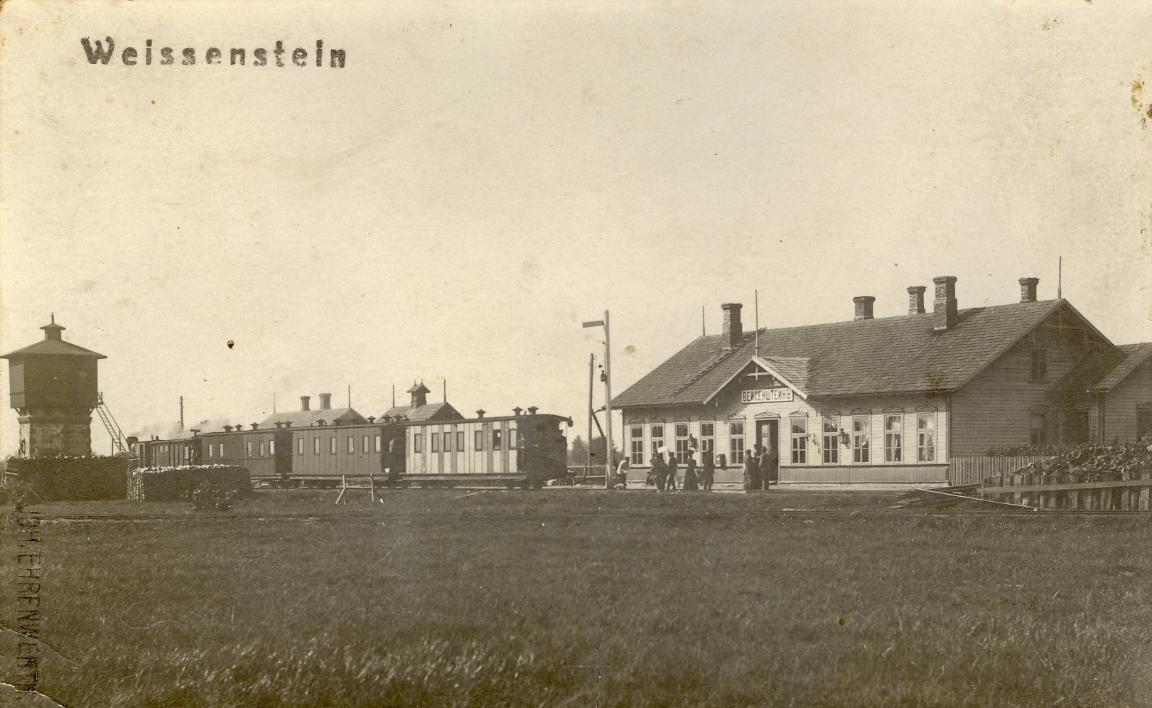 The building of the Paide railway station